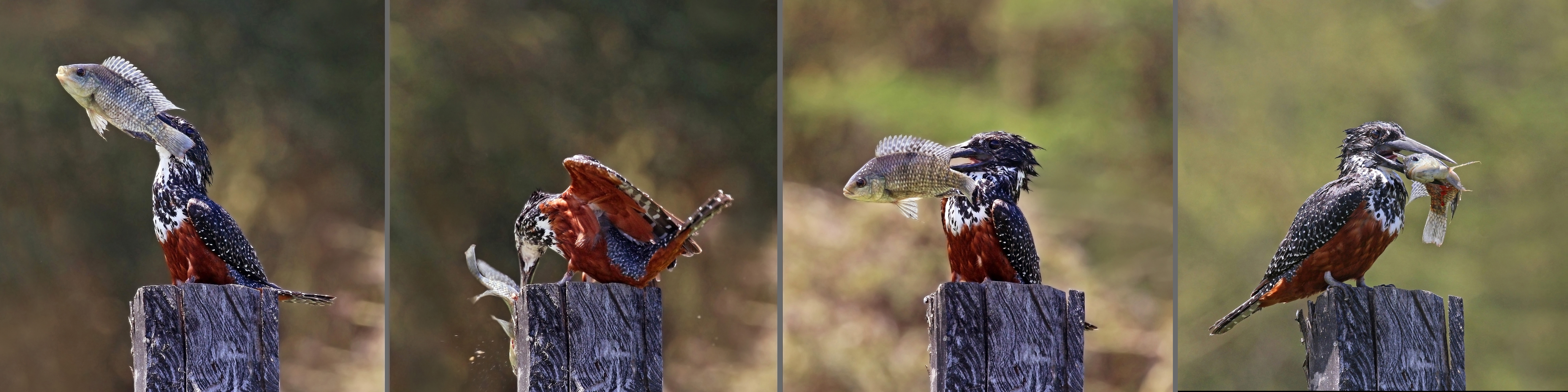 Giant kingfisher (Megaceryle maxima) female with tilapia, Lake Naivasha, Kenya - composite of four images.Left to right: Kingfisher returns to perch with fish. She smashes it against the post to break its spine. Job done. And here's the blood to prove it.